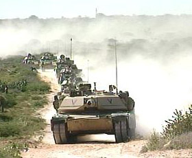 An armoured column of M1A1 Abrams Tanks and M2 Bradley IFVs of 1-64th Armor move down a dirt road outside the city of Mogadishu, Somalia. (January 1994). Still image from 3/4" U-Matic video by Peter Rimar.